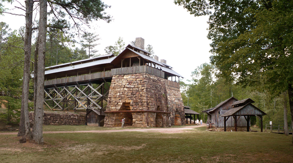 Photograph of Tannehill Ironworks